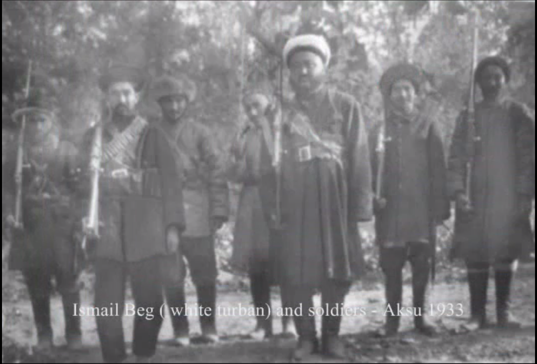 Uyghur commander Ismail Beg 1933-1934